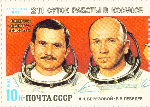 USSR postage stamp (1983): Salyut 7 - 211 days in space - A. N. Berezovoy, V. V. Lebedev